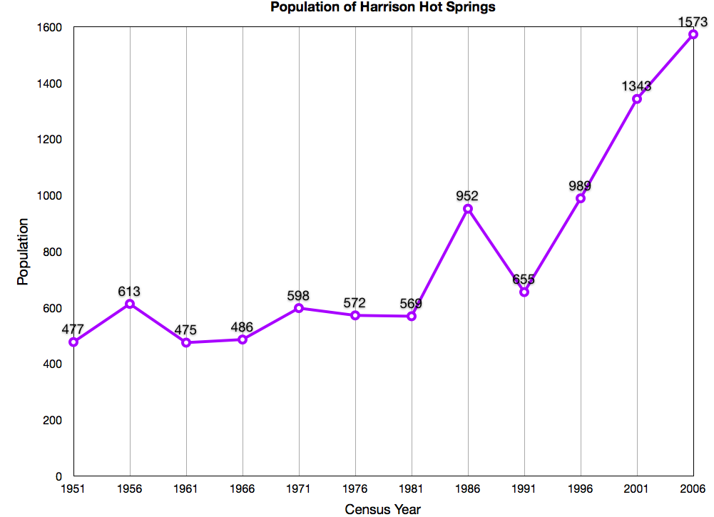 Harrison Hot Springs' population (1951-2006). From Canadian Censuses.